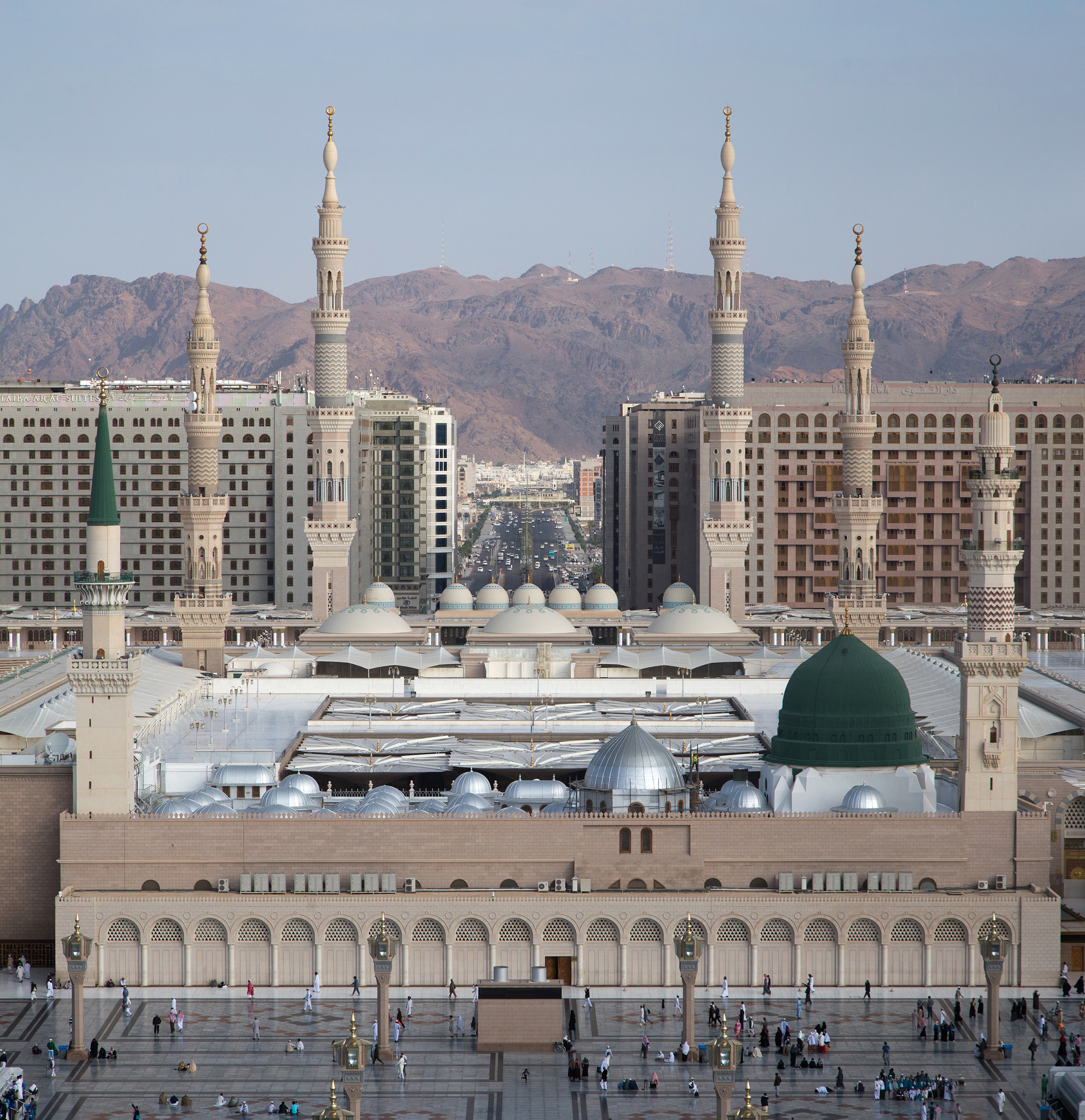 Masjid an-Nabawi in Madina, Arabia. View of the mosque from south, minaret of bab al-Baqi and Green Dome to the right (foreground) and minaret of bab as-Salam to the left (foreground).